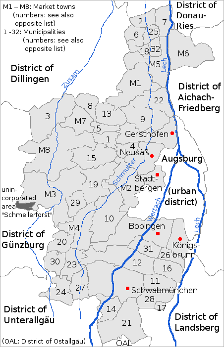 the district of Augsburg - english